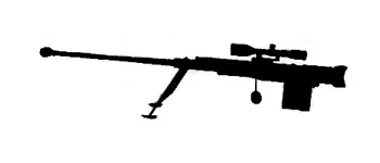 Gepard M3 icon